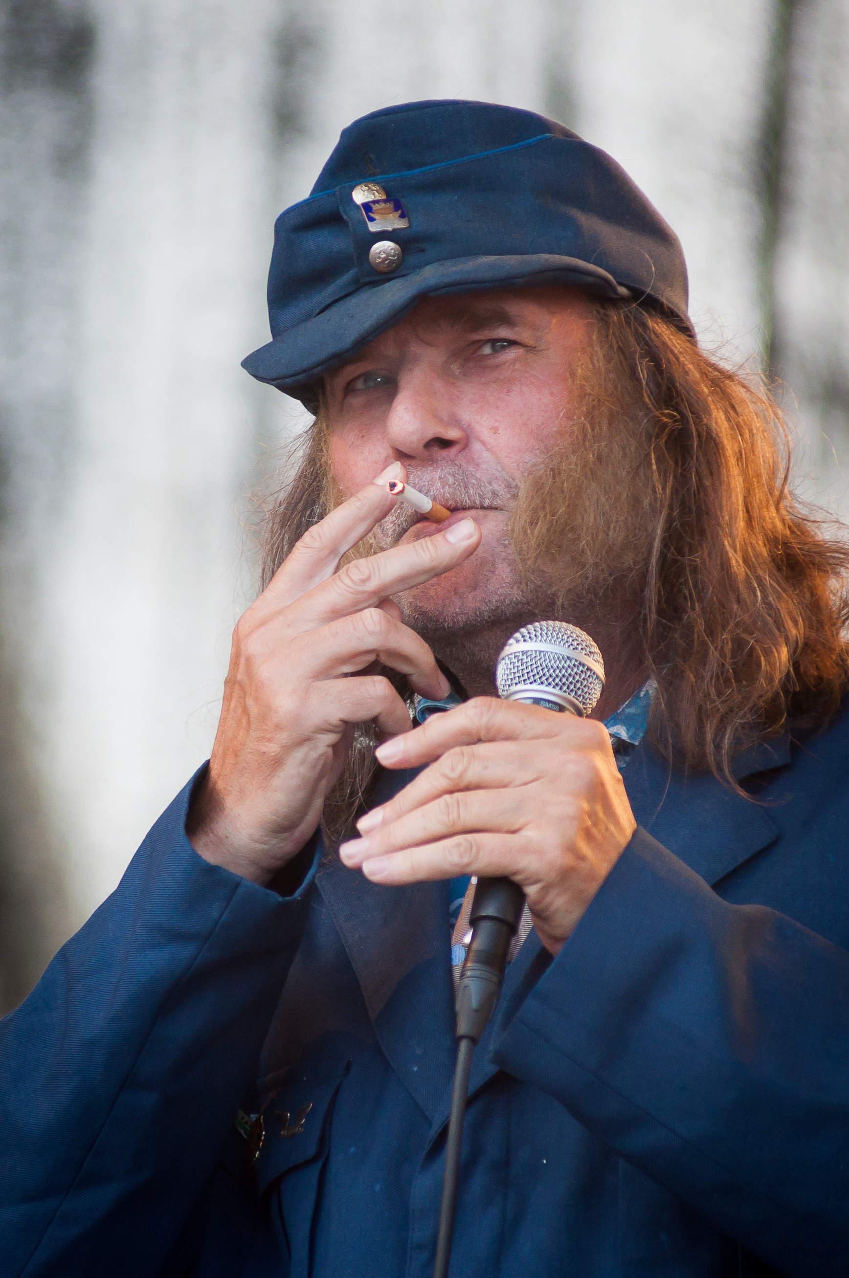 Kai "Kaide" Järvinen performing as Aarne Tenkanen at the 2013 Rakuunarock festival in Lappeenranta, Finland.